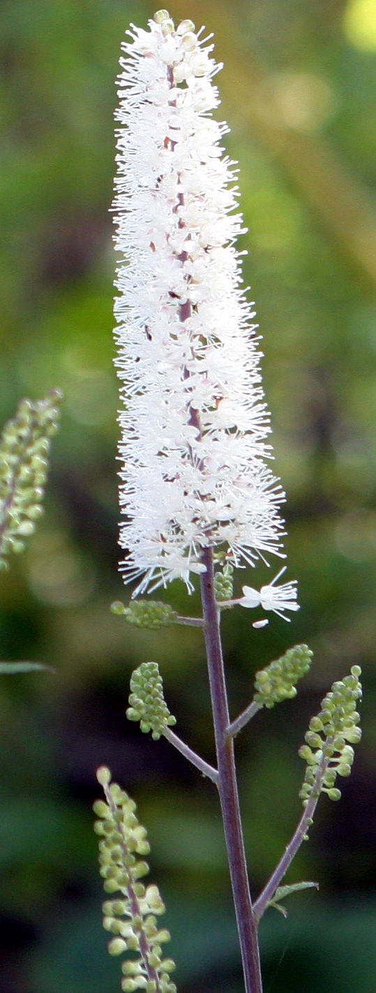 Self made picture of flowers of Cimicifuga ramosa. A collection of flowers forming an inflorescence.